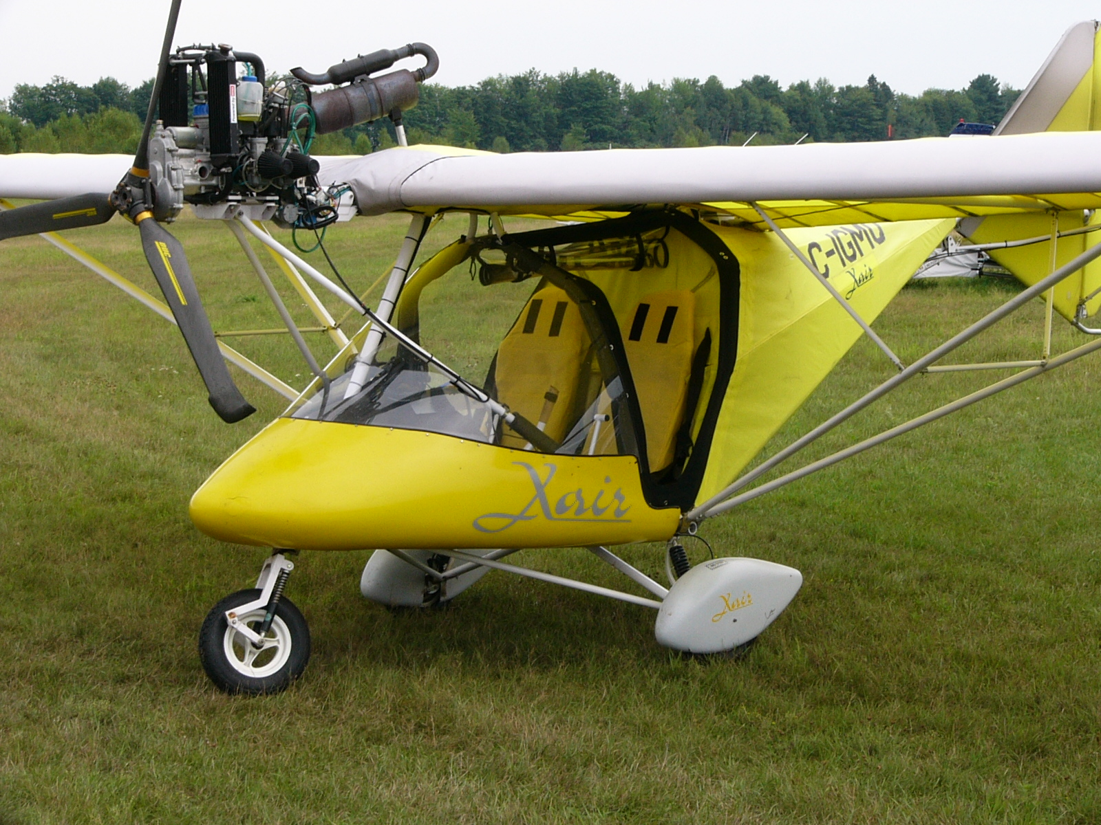 A Ran Kar X-Air at Hawkesbury, Ontario, Canada